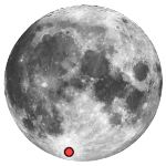 Description: Location of the Maginus crater on the Moon. Source: This is a modified version of the photo obtained from the NASA Planetary Photojournal. It was modified by RJHall. Width: 150 pixels Height: 150 pixels